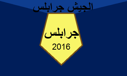 A more simplified version of the Jarabulus Military Council flag to be used in Wikipedia.